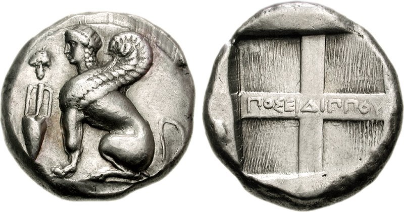 ISLANDS off IONIA, Chios. Circa 380-350 BC. AR Tetradrachm (15.32 g, 11h). Poseidippo(s), magistrate. Sphinx seated left; to left, grape bunch above amphora / Quadripartite incuse square, with striated quarters and thick bands; ΠOΣEIΔIΠΠOY on horizontal band. Mavrogordato 48; Pixodarus 27 (same obv. die); SNG von Aulock -; SNG Copenhagen -; BMC 33. EF, lightly toned. Well centered on a broad flan of excellent metal. One of the finest known.